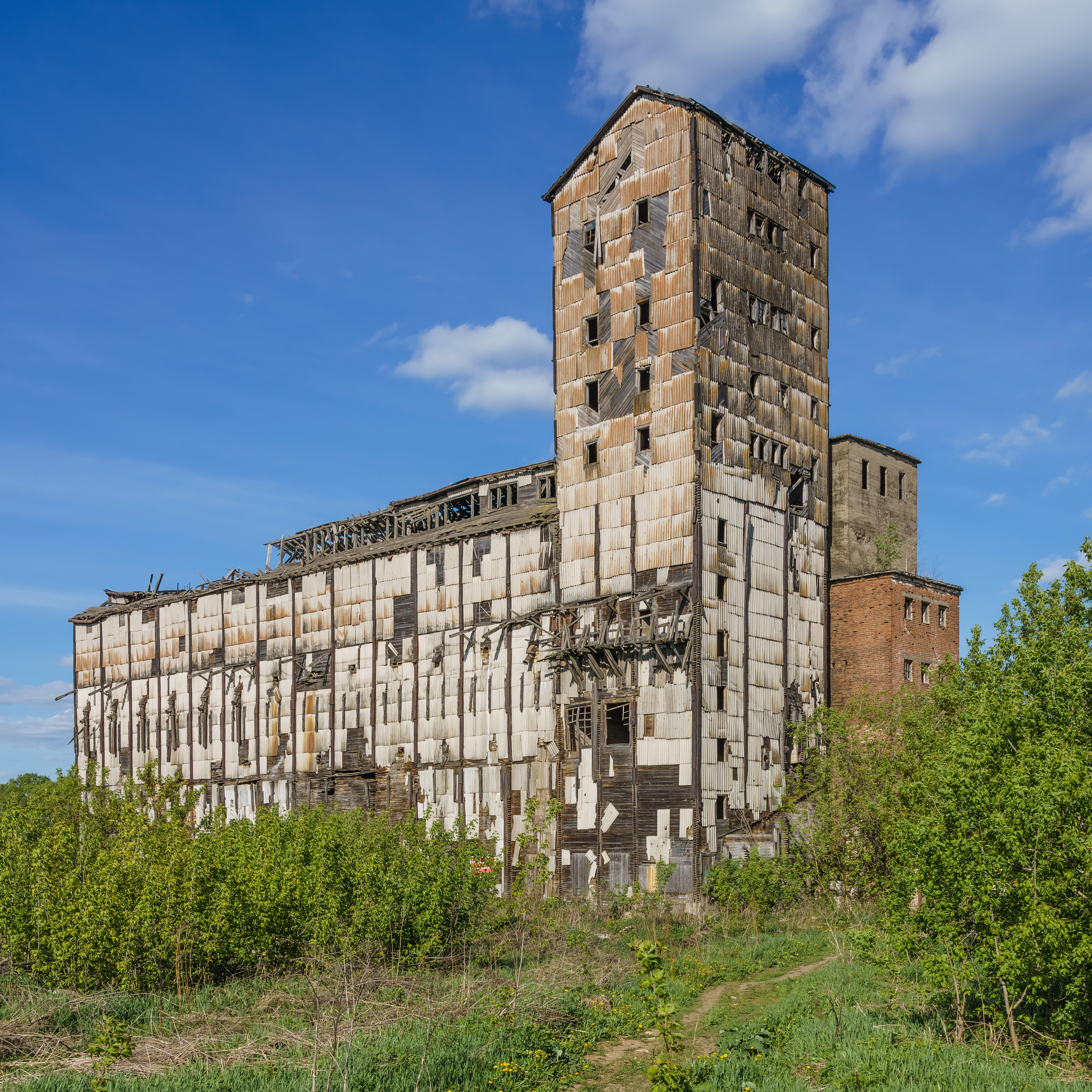 Abandoned grain elevator in Falyonki, Kirov Oblast, Russia